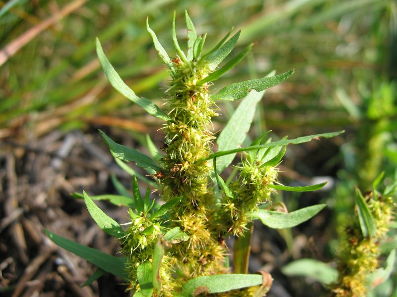 Strand-Ampfer (Rumex maritimus)